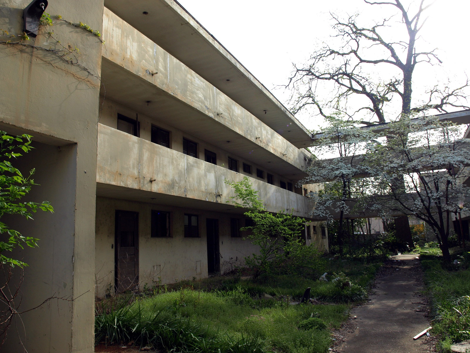 The Grove Court Apartments in Montgomery, Alabama, listed on the National Register of Historic Places.